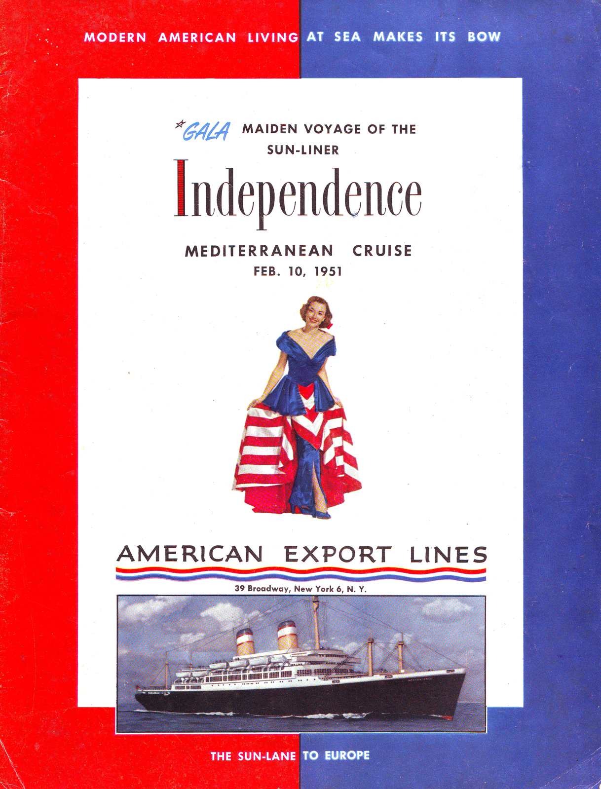 Cover illustration of a 24-page brochure for the "Gala Maiden Voyage of the Sun Liner Independence Mediterranean Cruise Feb. 10, 1951". American Export Lines Feb 10 - April 4, 1951, 22 Mediterranean ports in 53 days. Itinerary: New York: Sat, Feb 10, 1951, Madeira: Fri., Feb.16, Casablanca: Sat. Feb.17 (for Marrakesh, Rabat, Fez, and Meknes), Cadiz: Mon, Feb.19 (for Seville, Granada, and the Alhambra), Gibraltar: Tue, Feb. 20, Tangier: Tue, Feb. 20, Malaga: Wed, Feb. 21, Algiers: Feb. 22, (for the Kasbah), Palermo: Sat, Feb. 24 (for Monreale), Naples: Sun. Feb. 25 (for Pompeii, Amalfii, and Sorrento), Athens: Tue, Feb, 27 (for the Parthenon and Acropolis), Haifa: Thu. Mar.1 (for Israel: Tel-Aviv, The Holy Land, Nazareth, Tiberias, Capernaum, Jerusalem-in-Israel, Mt. Carmel), Larnaca: Sun. Mar. 4 (Cyprus), Beirut: Mon. Mar. 5, (for Damascus, Baalbeck, Jerusalem-in-Hashemite-Transjordan, Bethlehem, Mount of Olives), Alexandria:Thu. Mar. 8, (for Cairo, the Pyramids, and Luxor), Istanbul: Thu. Mar. 15, Naples: Mon. Mar. 19 (for Capri, Rome, and Florence), Genoa: Thu. Mar. 22 (for Rapallo, Santa Margherita, Portofino and the Italian Riviera), Cannes: Sat. Mar. 24 (for Nice, Monte Carlo, Grasse, and the French Riviera), Barcelona: Mon. Mar. 26, Palma: Tue. Mar. 27 (Capital of the Balearic Islands), Gibraltar: Wed. Mar. 28, Lisbon: Thu. Mar. 29 (for Cinfra, Beiem, Estoril and Fatima), New York: Wed. Apr. 4, 11:00 AM.